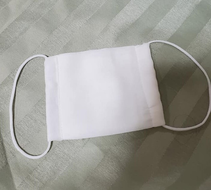 "Abenomask" Abes`s mask,Japan government delivered this to the whole nation in 2020